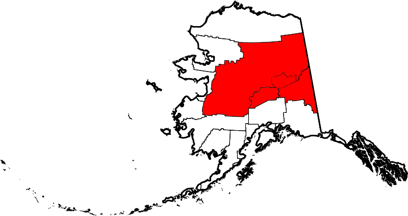 Map of Interior Alaska as defined by boroughs and census areas, based on this Alaska Office of Economic Development map